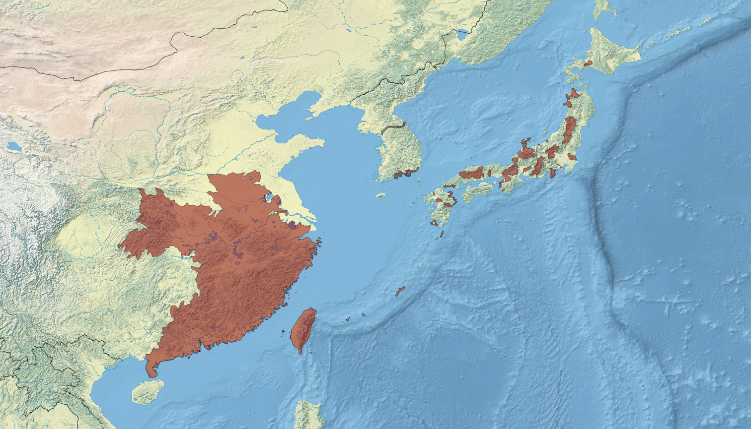 Distribution map of Semisulcospira libertina.